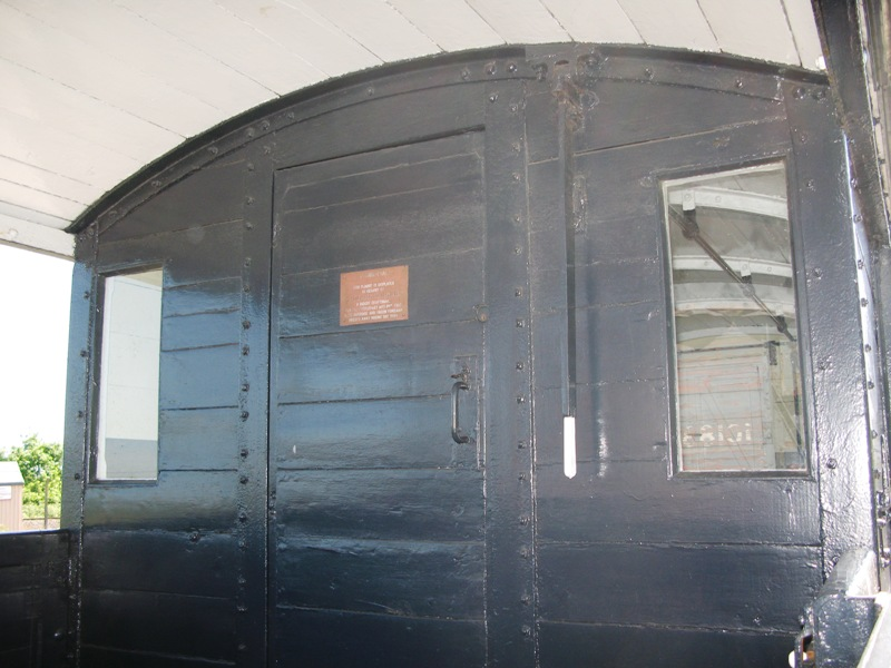 Inside the verranda of Great Western Railway diagram AA15 'Toad' brake van.